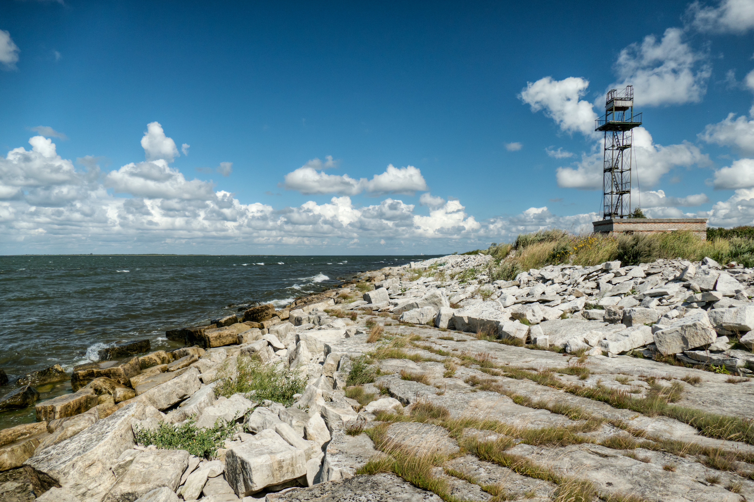 Elda cliff on Atla peninsula, part of Vilsandi National Park